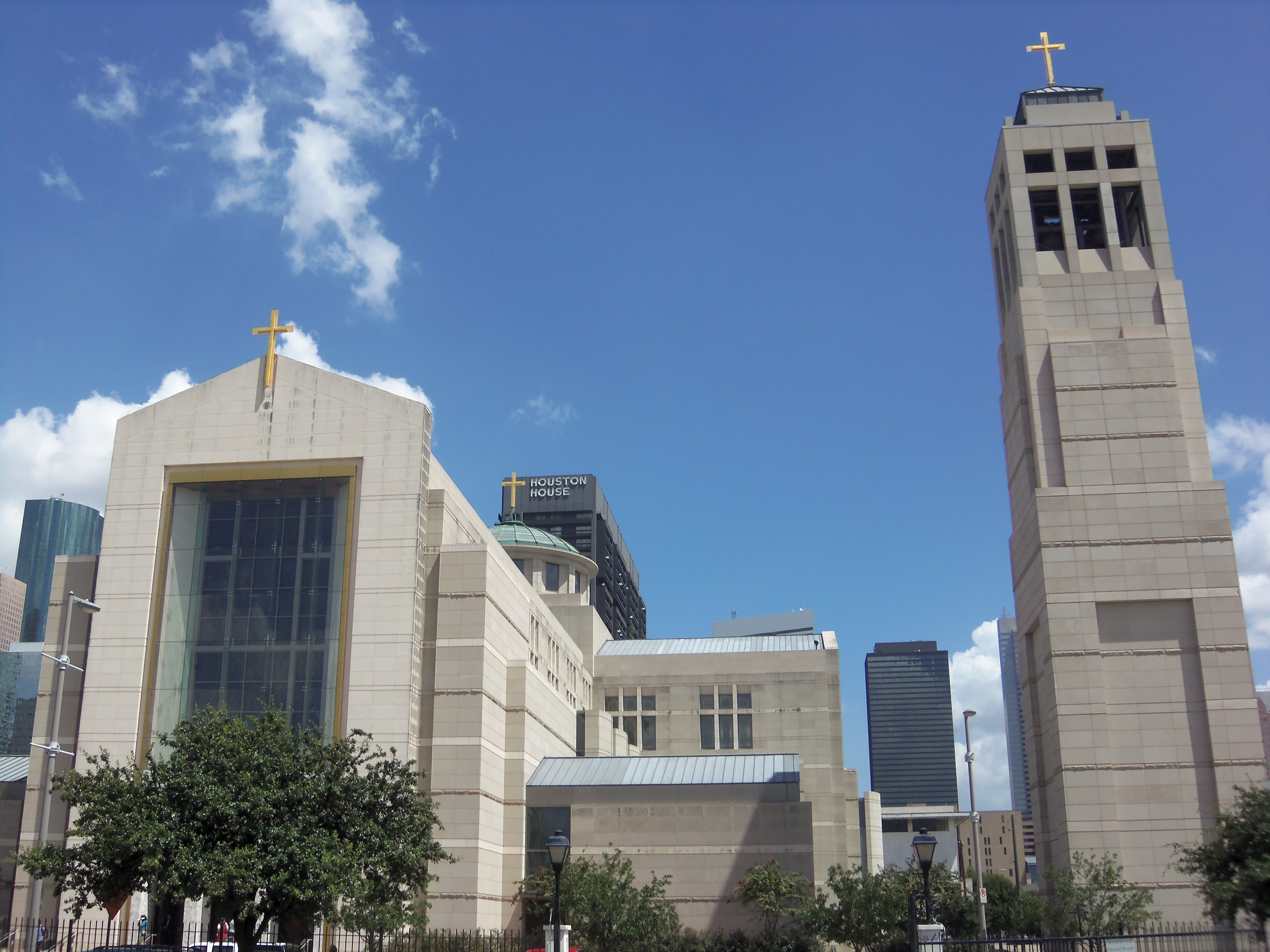 The exterior of the Co-Cathedral of the Sacred Heart in Houston, Texas at sunrise from the south.